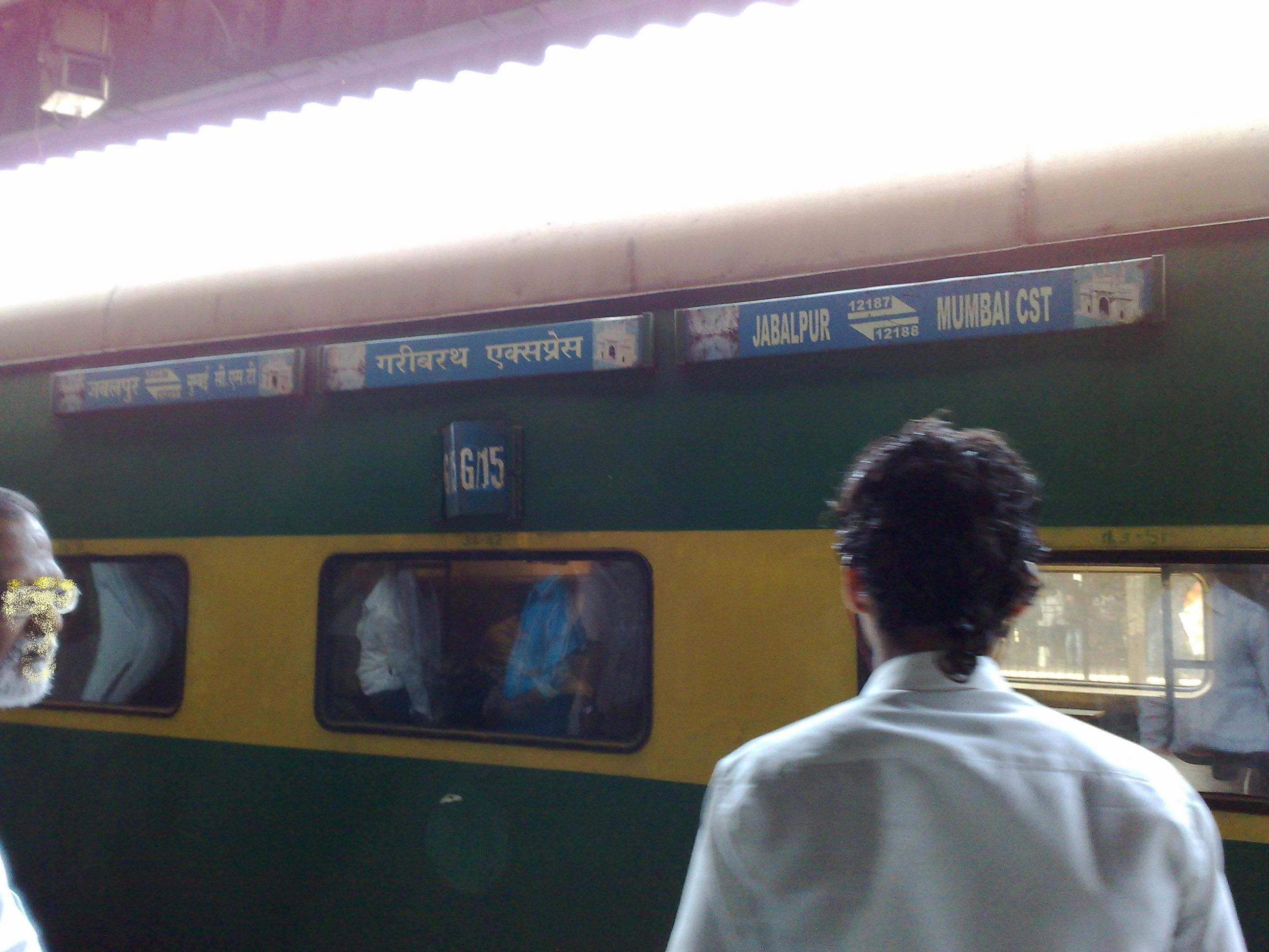 12187 Garib Rath Express - AC 3 tier coach